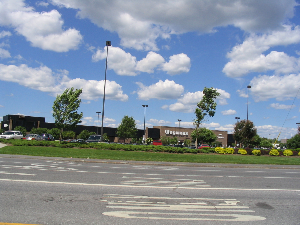 photo of the Large famous DeWitt Wegmans Grocery Store in DeWitt, NY, taken by me on June 20, 2004